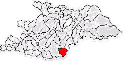 Map of Suciu commune in Maramures County